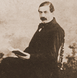 Francesco Faà di Bruno, Italian mathematician